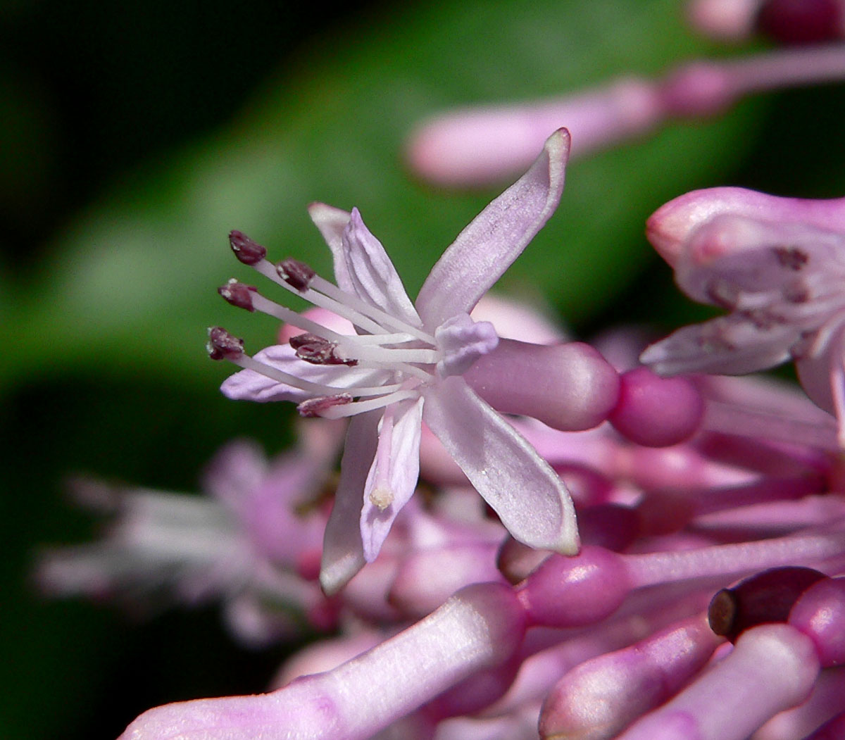 Fuchsia paniculata at the San Francisco Botanical Garden